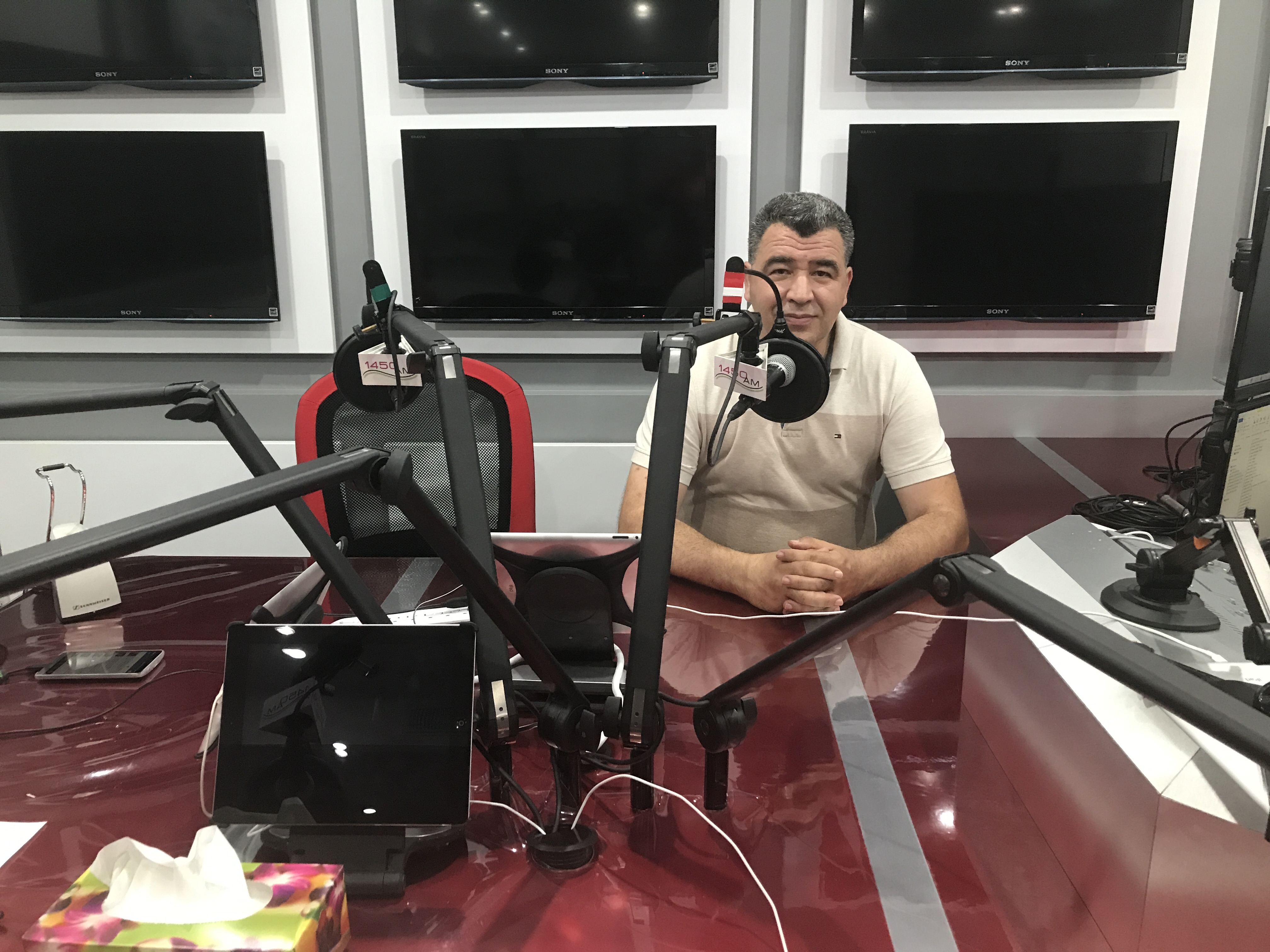 Lamine Foura journaliste animateur de radio , fondateur et secretaire General du Congrés Maghrebin au Québec et Fondateur et président de Medias Maghreb This is an image of "African people at work" from Algeria